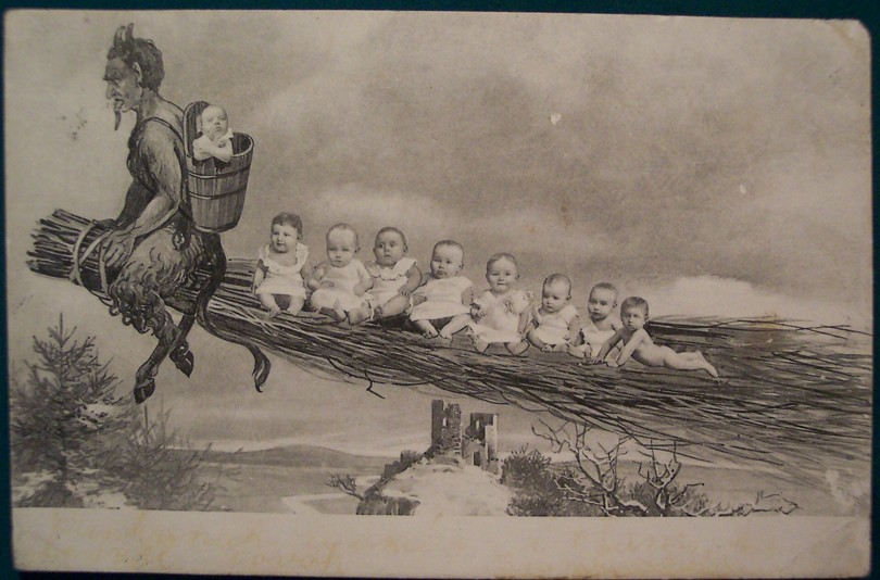 Krampus